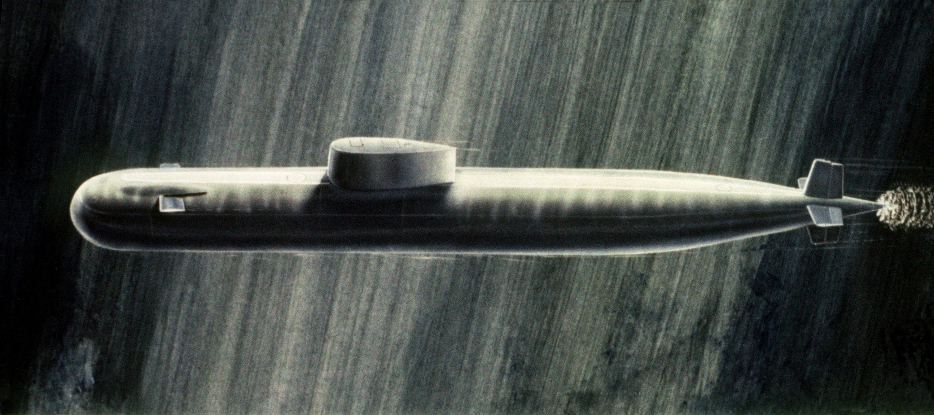 A Soviet Mike class attack submarine. Courtesy of Soviet Military Power, 1984. Photo 64, page 61.